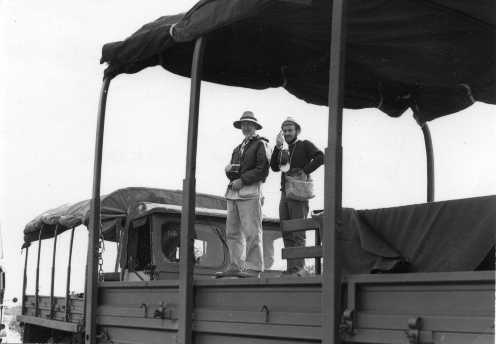 Archaeologists J. Desmond Clark (left) and Glynn Isaac Photo taken near St. Louis, Senegal in December, 1967. A cropped version of this photograph has been published at least twice and was part of an exhibit at the University of California, Berkeley.